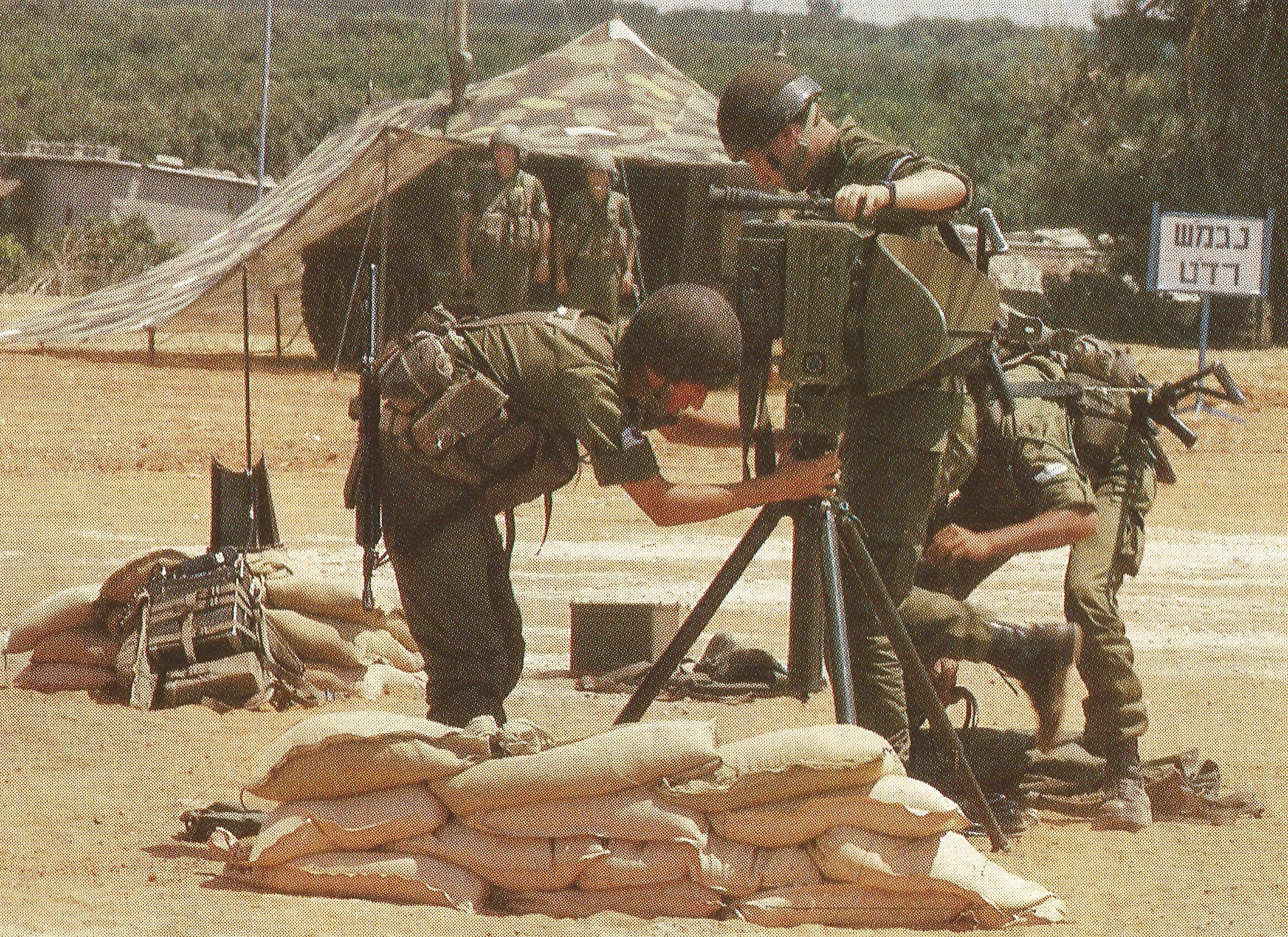 IDF Signal corps soldiers installing AN/PPS-5 Ground Radar Set, known as the Keshet Rader in the IDF, during a military exercise